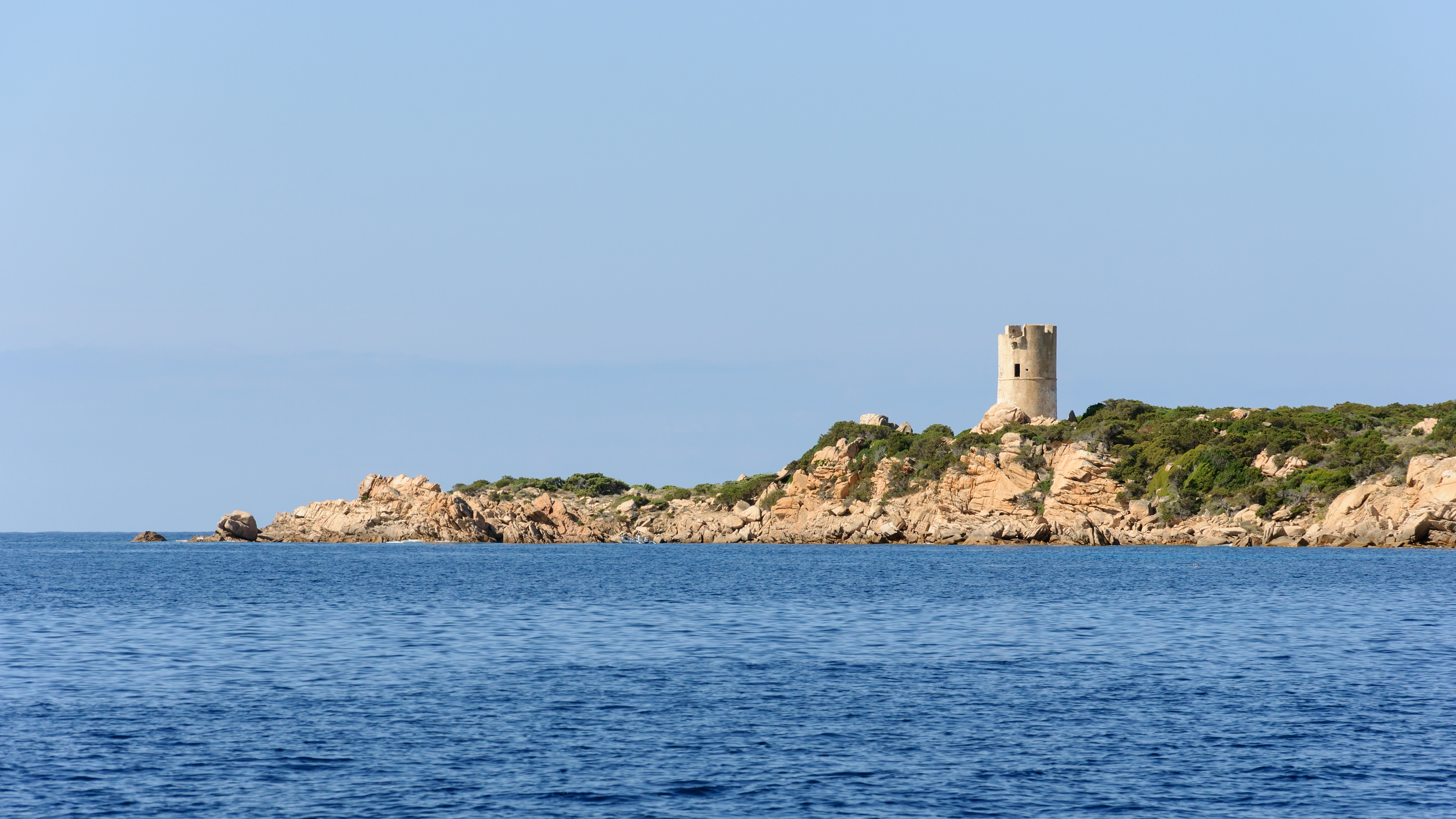 The Genoese tower of Olmeto (near Monacia-d'Aullène, Southern Corsica, France) Corsu: Torra d'Ulmetu (cumuna di a Munacia d'Auddè, Corsica suttana)